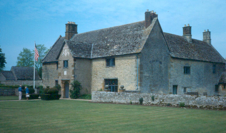 Sulgrave Manor, South Northamptonshire